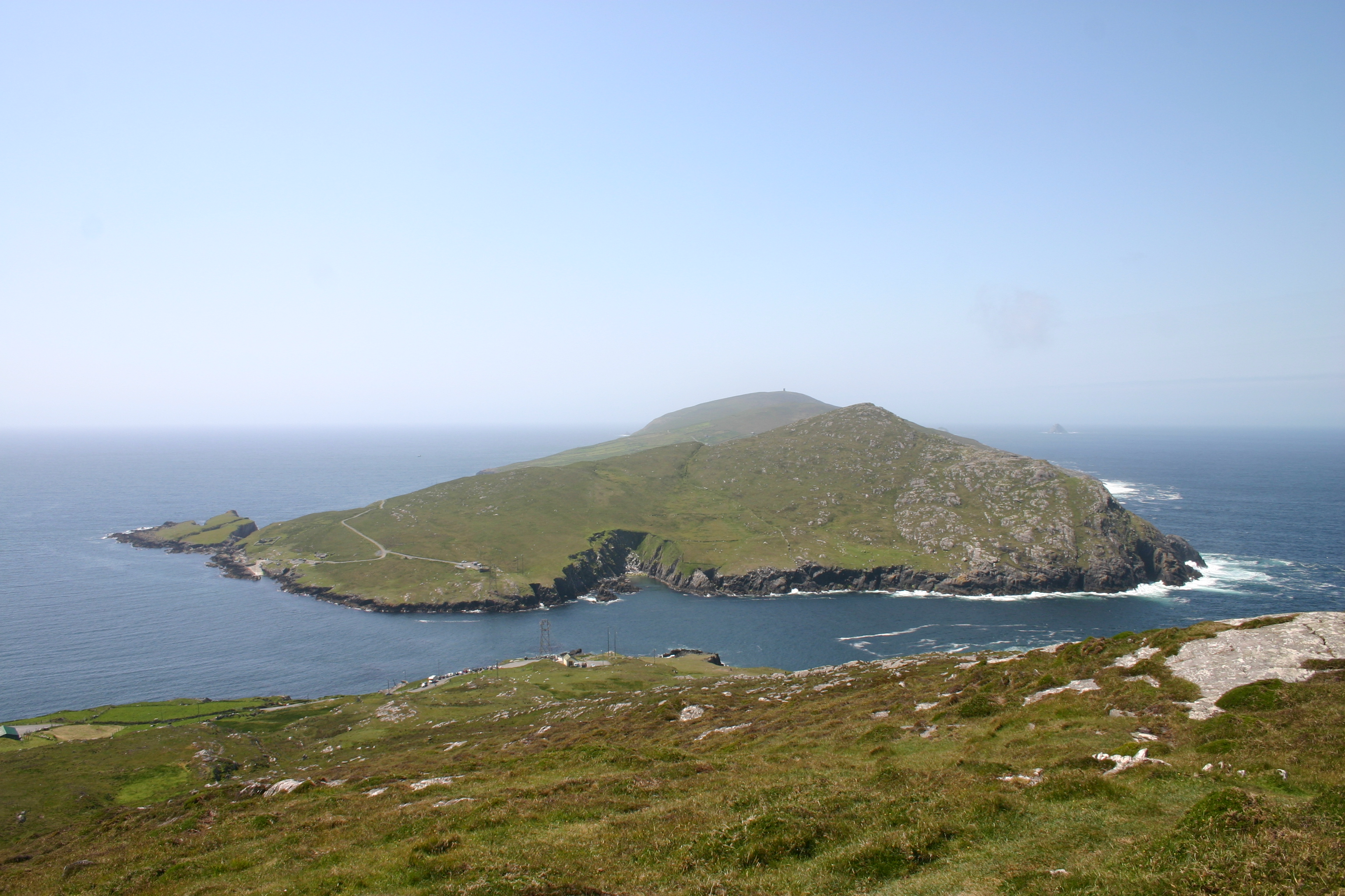 Photo of Dursey Island, taken from the hike trail.